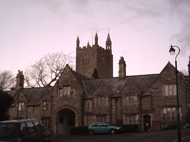 Almshouses and Church, Pilton. Pevsner says that these Almshouses were built in 1849 in 'pretty-imitation Tudor' style. St Mary's Church is behind them.